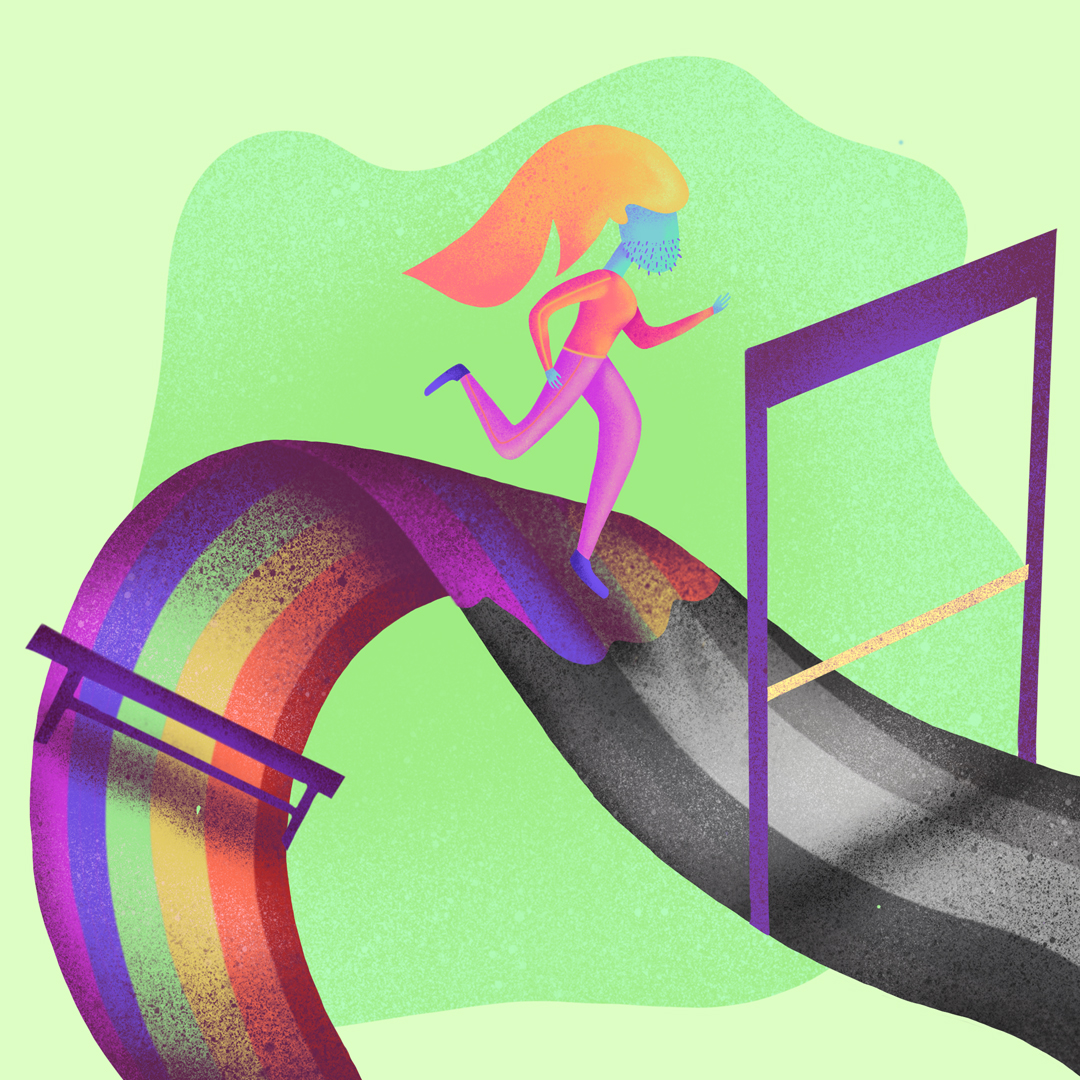 The race for more transvestite/ transgender seats in the sport is arduous, gray and full of obstacles, but not impossible. For more trans work inclusion.